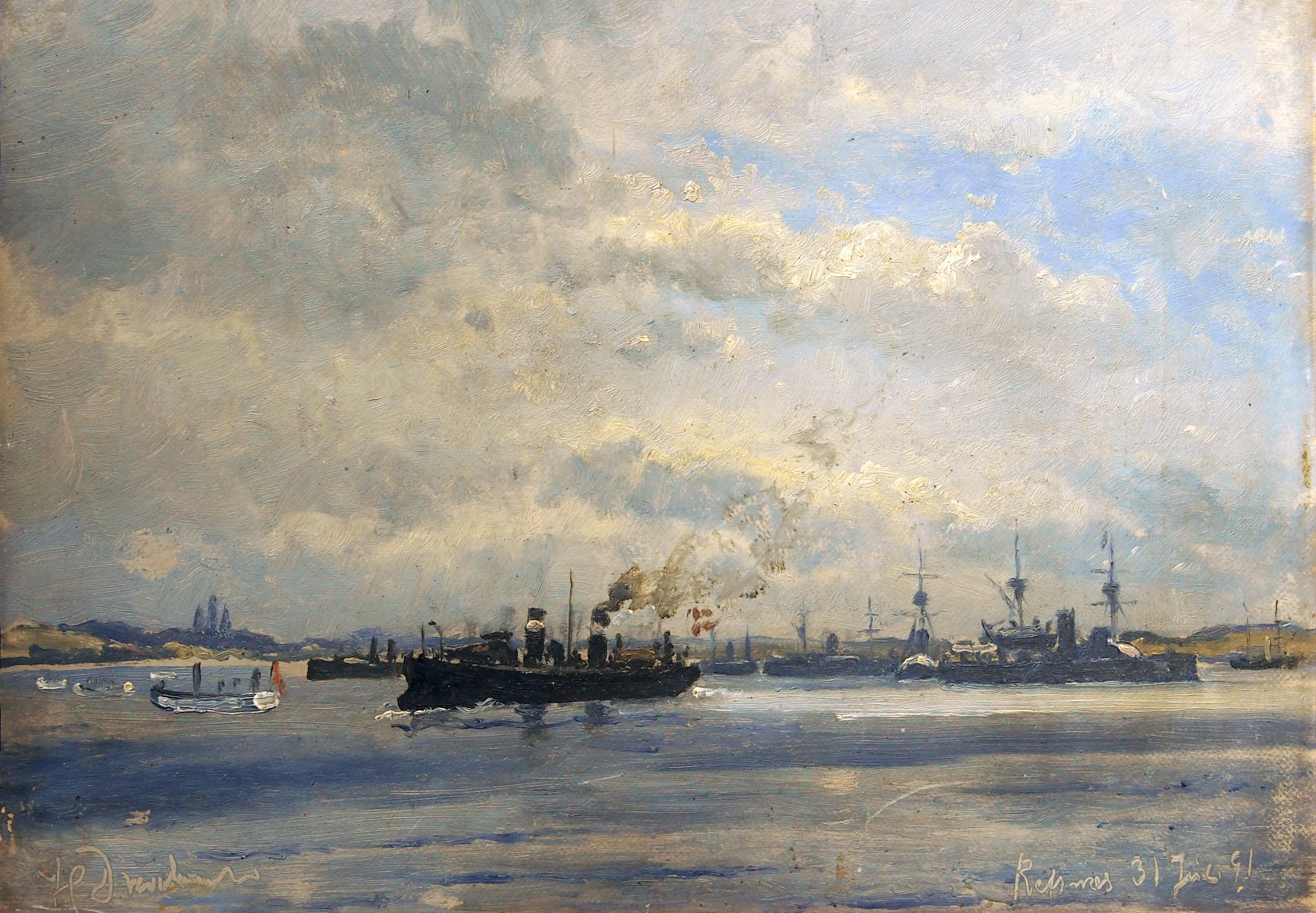 Photographed at the Royal Danish Naval Museum Copenhagen, Denmark. The Danish Squadron of 1891, at Refsnæs, 31-07-1891. In the center a torpedo boat, and to the right the Helgoland. Behind them is the coastal defence ship Tordenskjold and the small cruiser Hekla.